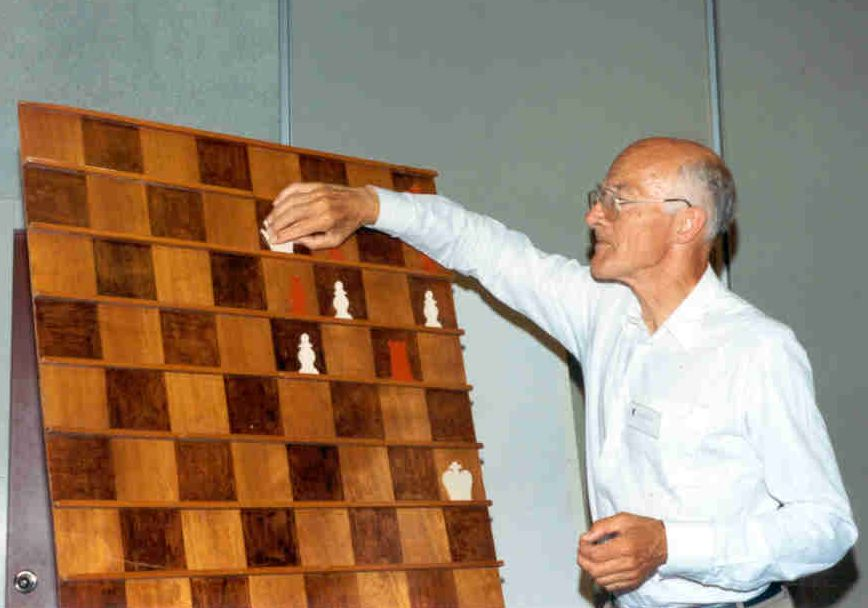 Wouter Mees – chess study composer, ARVES-meeting on the occasion of the PCCC-session 1991 in Rotterdam